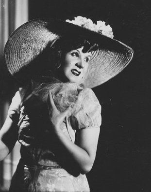 Amelia Mirel o Alma Bambu- actriz y vedette